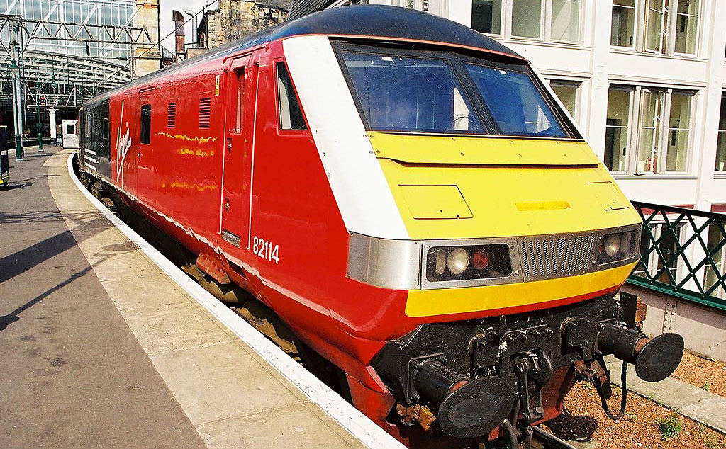 This image was taken by Martin J.Galloway. Donated freely from the British Photo Encyclopedia Dotonegroup : talk. Virgin Trains 82114 DVT sitting on Platform 1 Glasgow Central Station, Scotland July 2000. The Class 82s were used on the west coast line from Scotland to England prior to the introduction of the Pendolino sets.